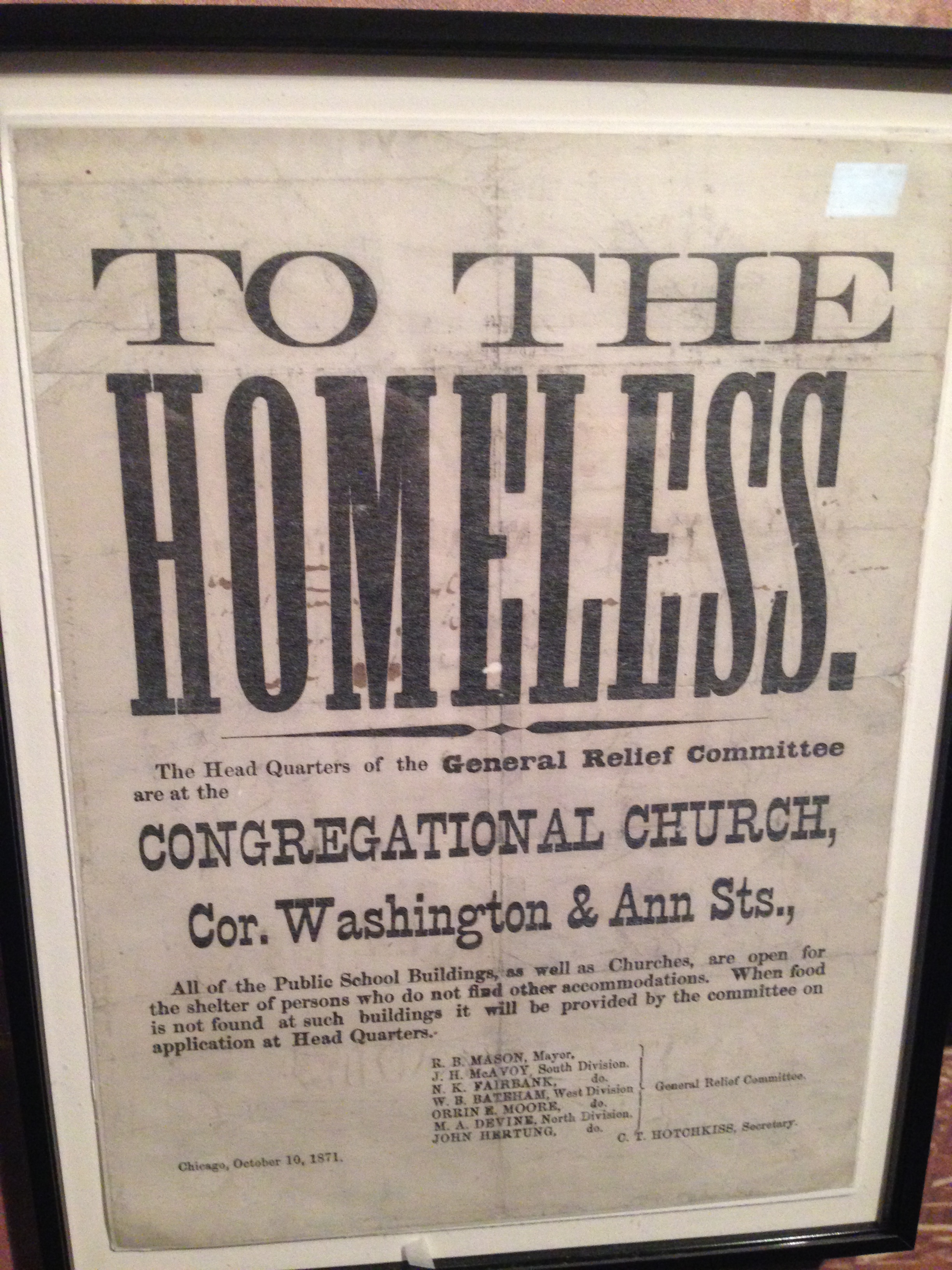 To the Homeless of the Chicago Fire, Chicago History Museum